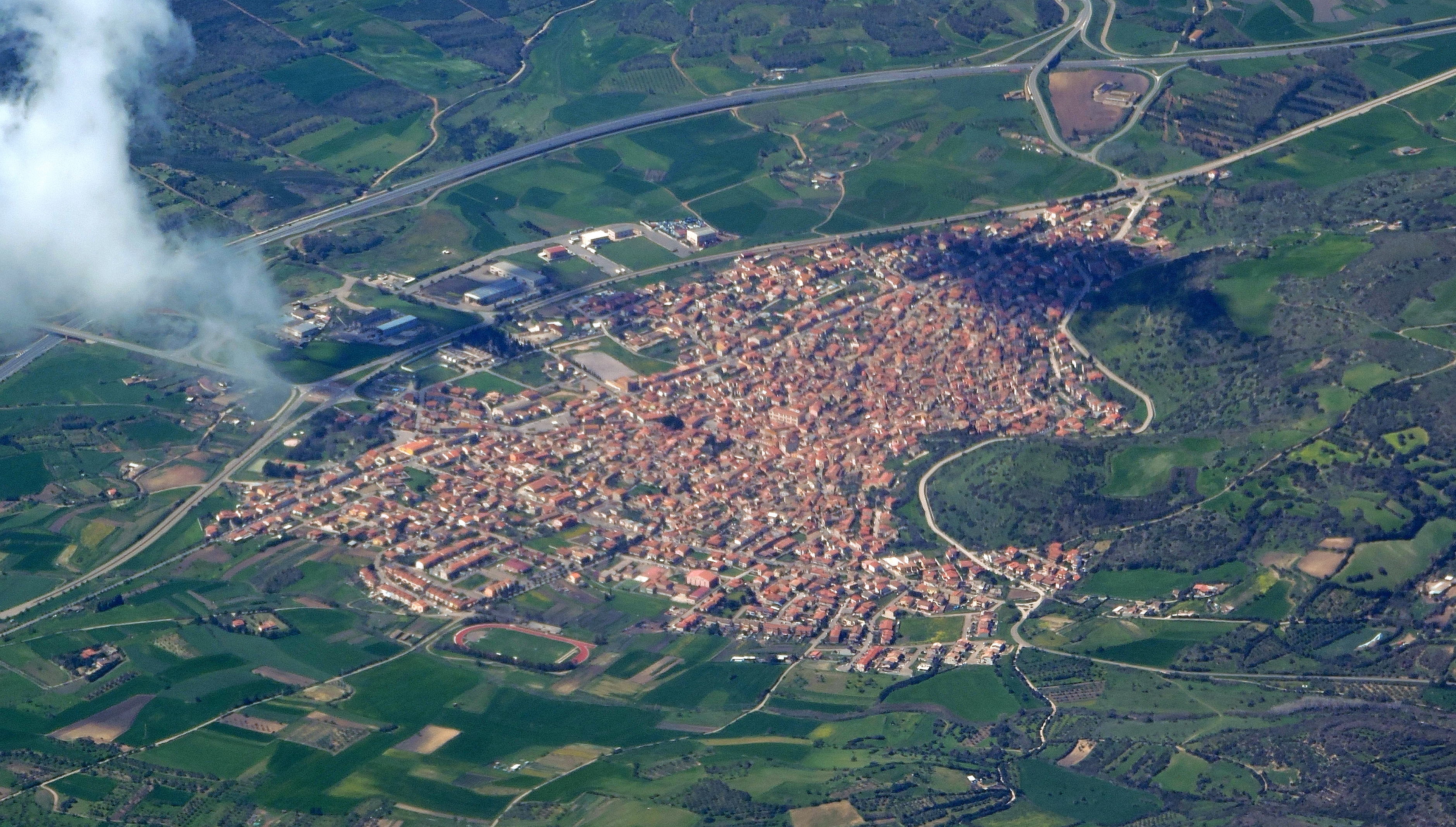 Sardara (Sardinia, Italy): aerial view